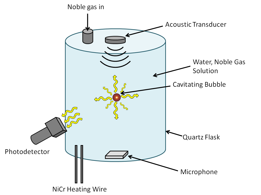 A setup similar to the following is required to cause sonoluminescence in an oscillating bubble of noble gas.